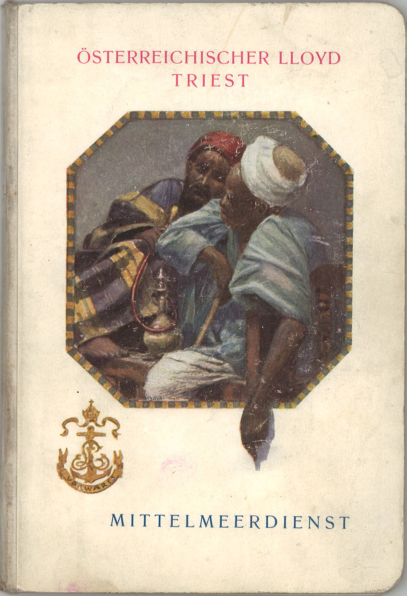 Promotion brochure "Mittelmeerdienst" of the Austrian Lloyd (1907), designed by Alphons Leopold Mielich (+ 1929)